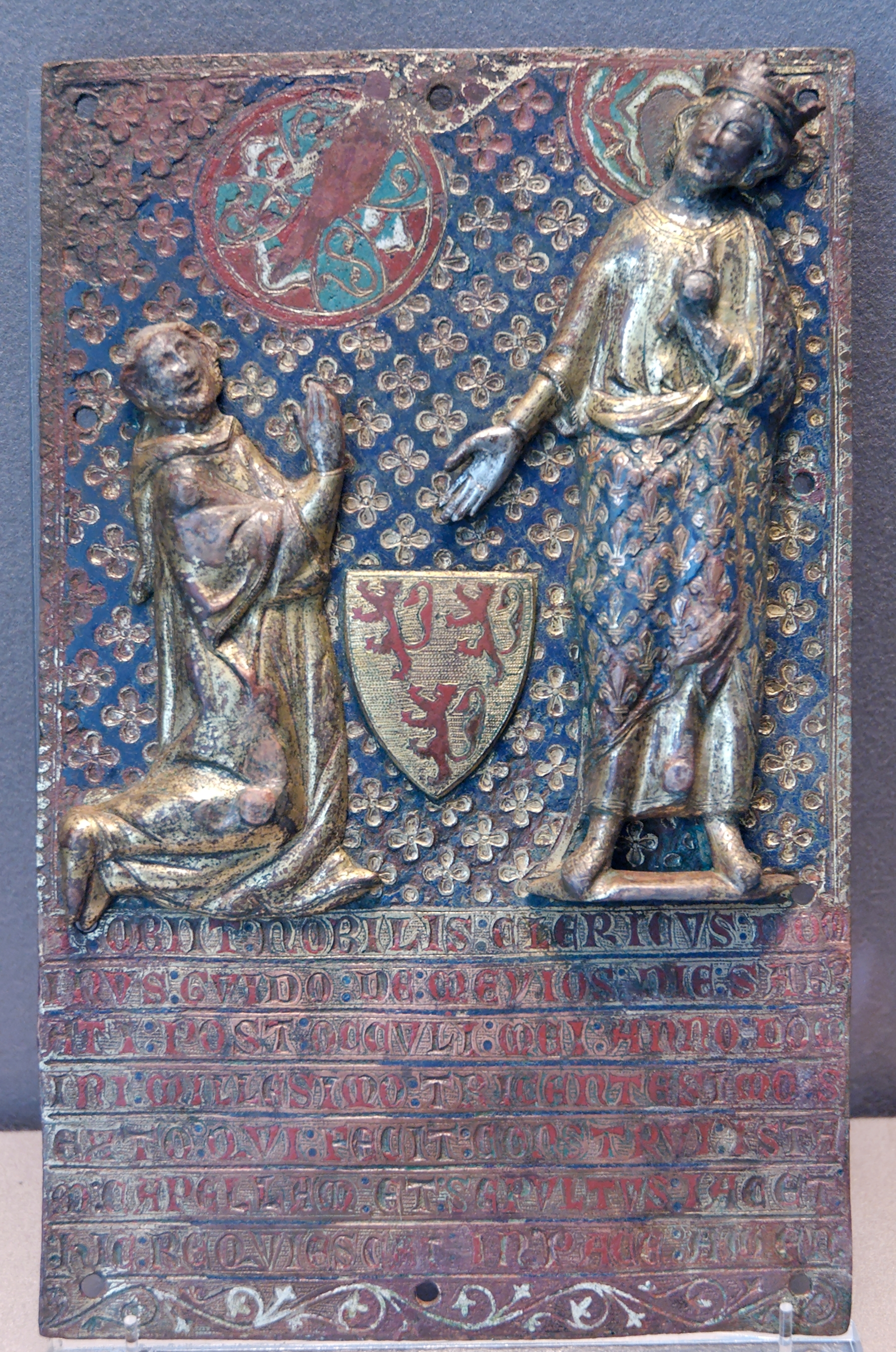 Funeral plaque representing Guy de Meyos kneeling before St. Louis. Champlevé enamel over gilt copper, Limoges, 1307. Found at Civray (Limousin, France).